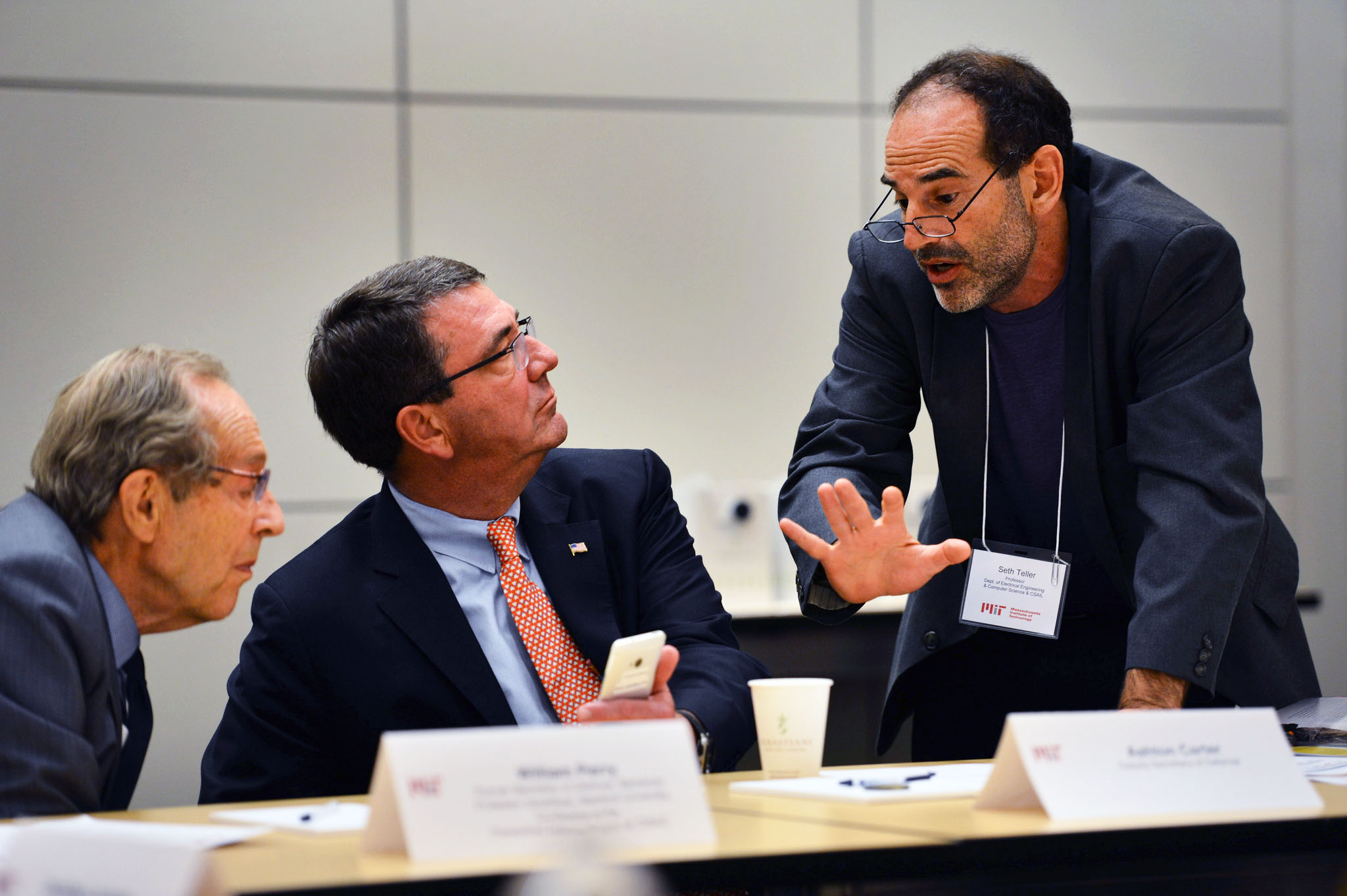 Deputy Defense Secretary Ash Carter listens to a brief from professor Seth Teller at the Massachusetts Institute of Technology's Lincoln Laboratory in Lexington, Mass., July 15, 2013.